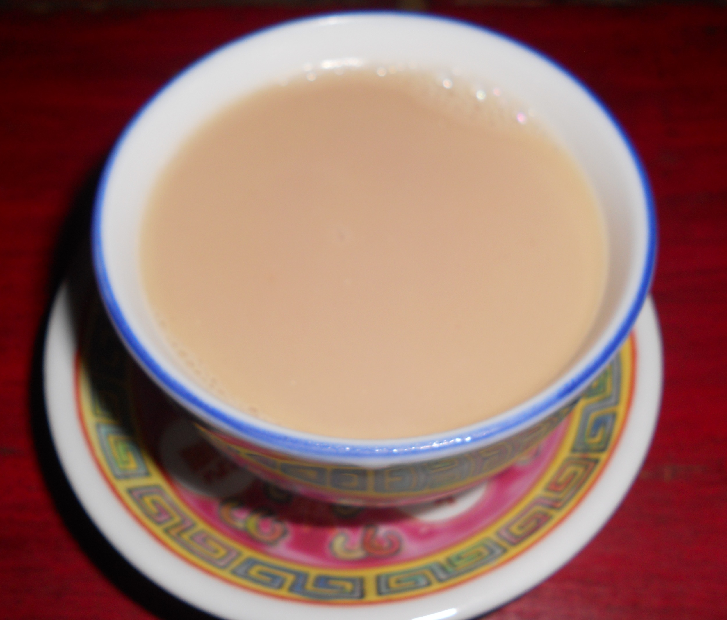 Butter tea. Photo taken in Ladakh, India.